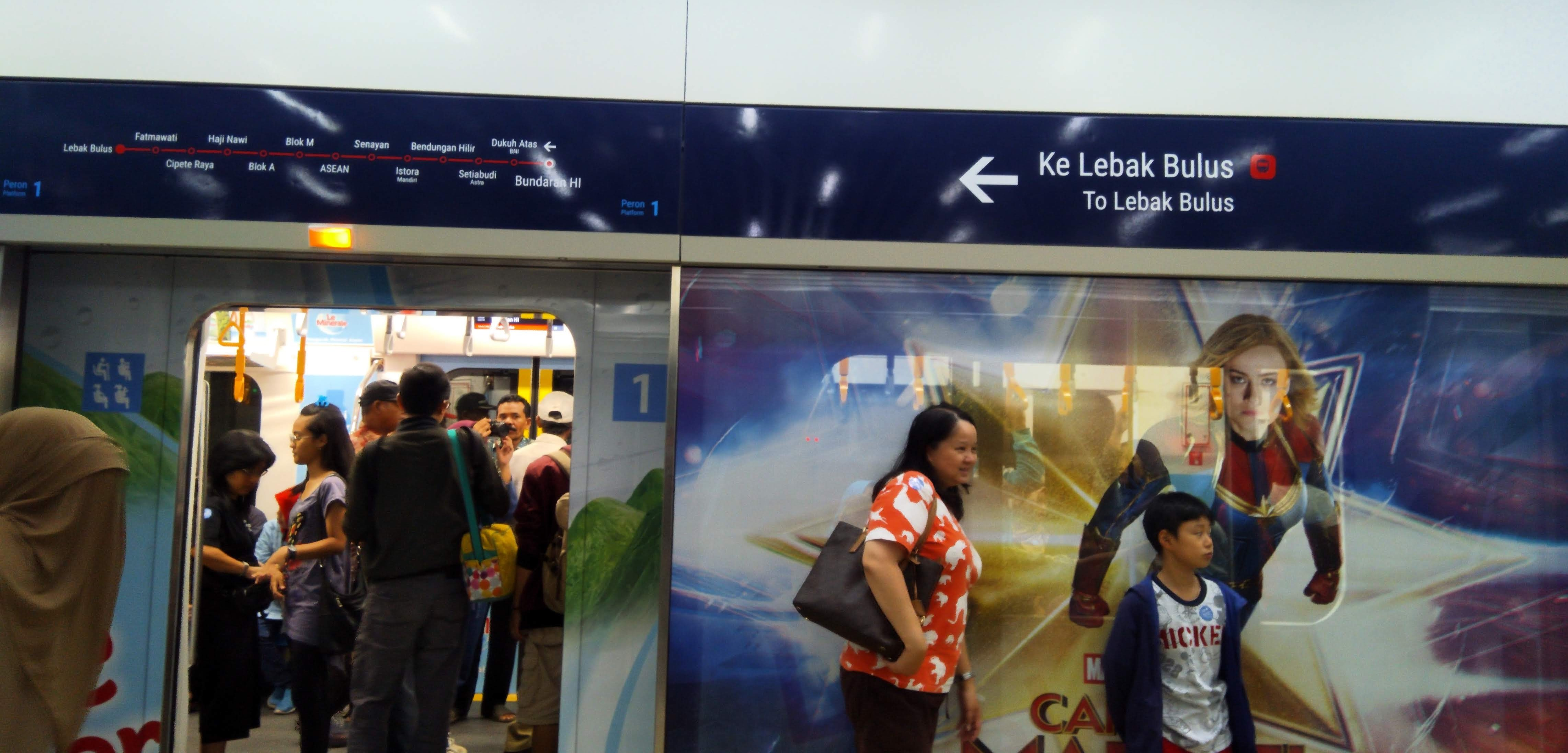 Passengers at Bundaran HI MRT station